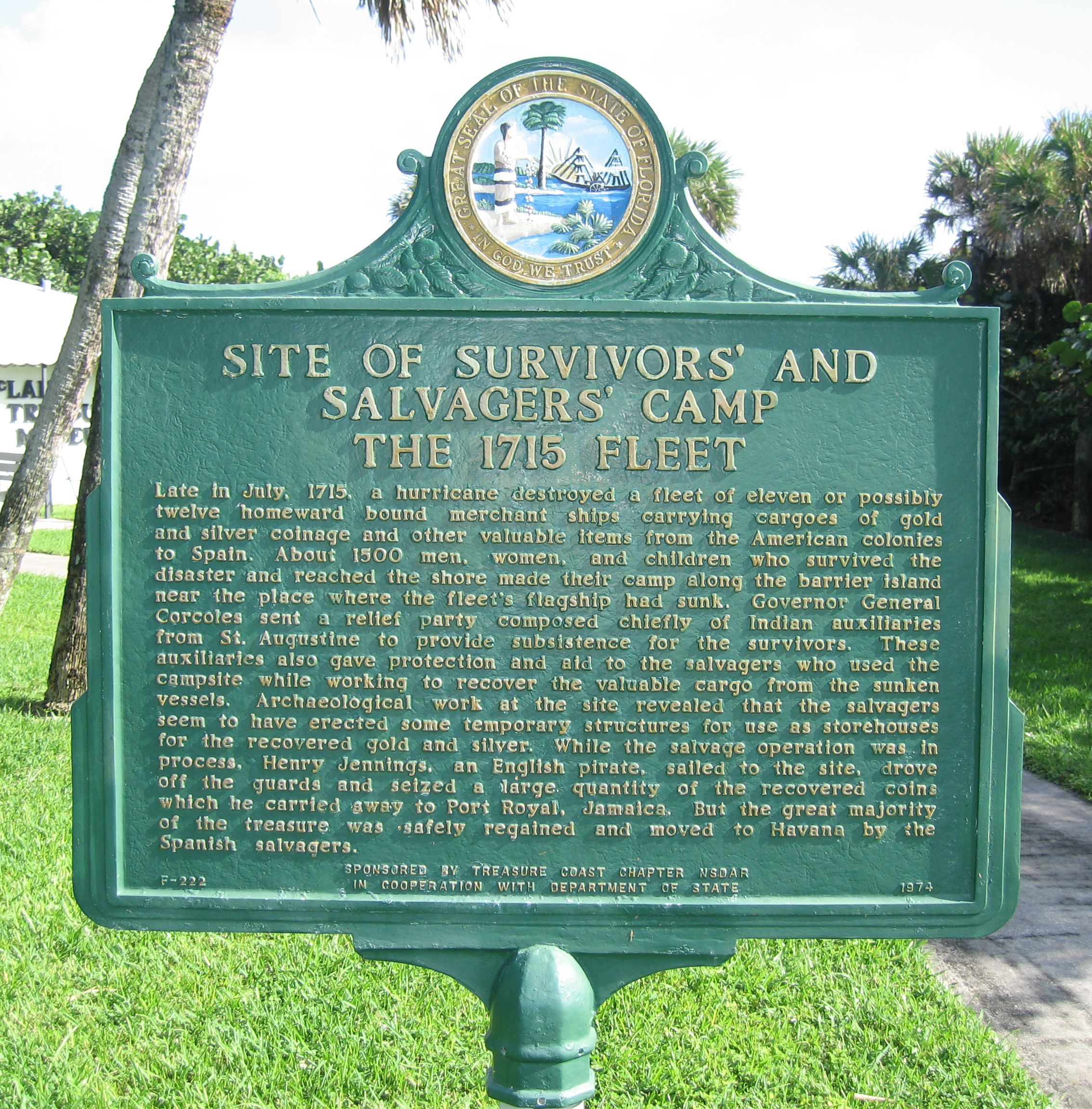 Historical marker designating the site of the Survivors' and Salvagers' Camp - 1715 Fleet and is located near 13180 North A1A, Orchid Island, Florida.